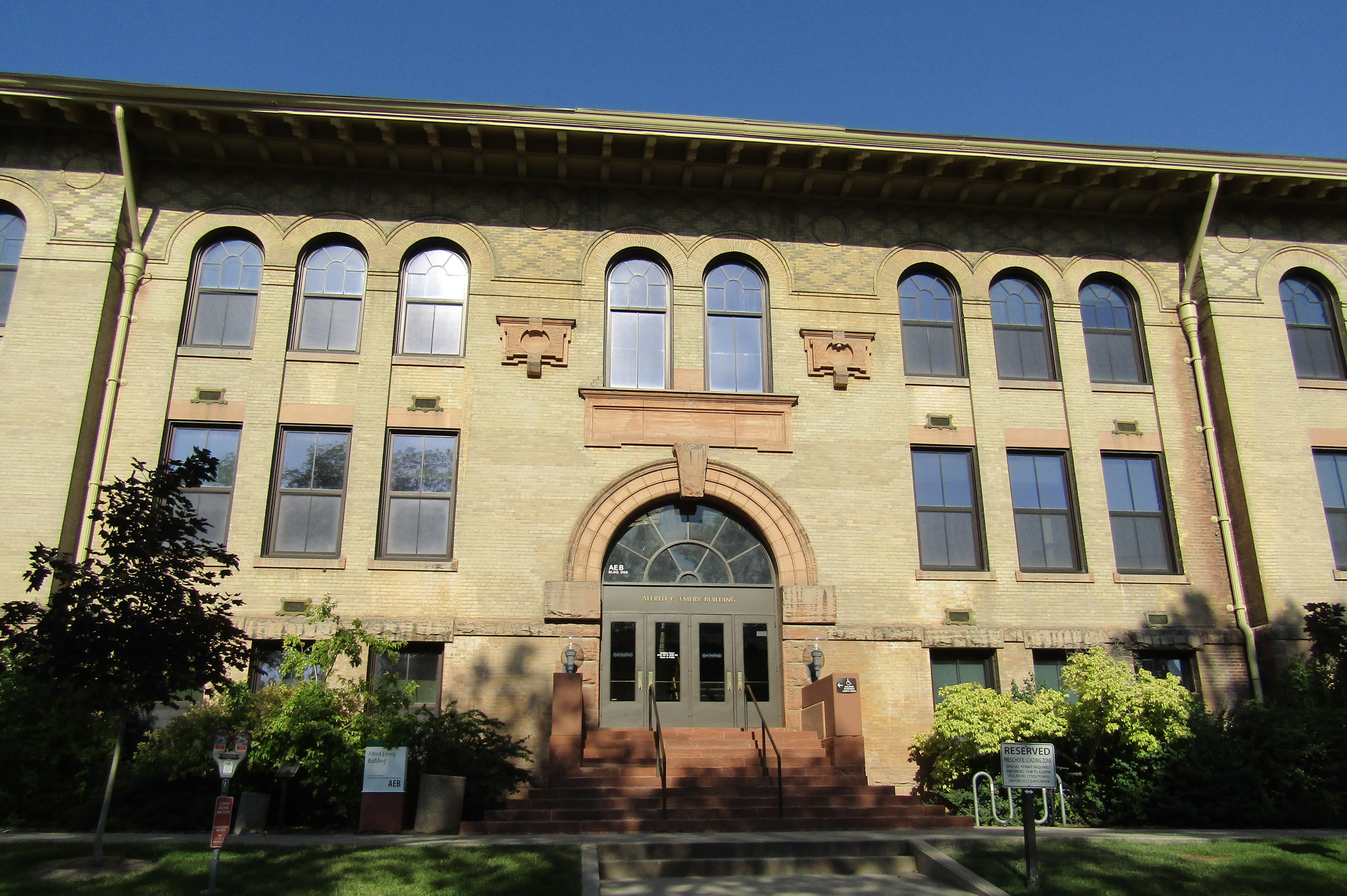 Building in University of Utah Circle